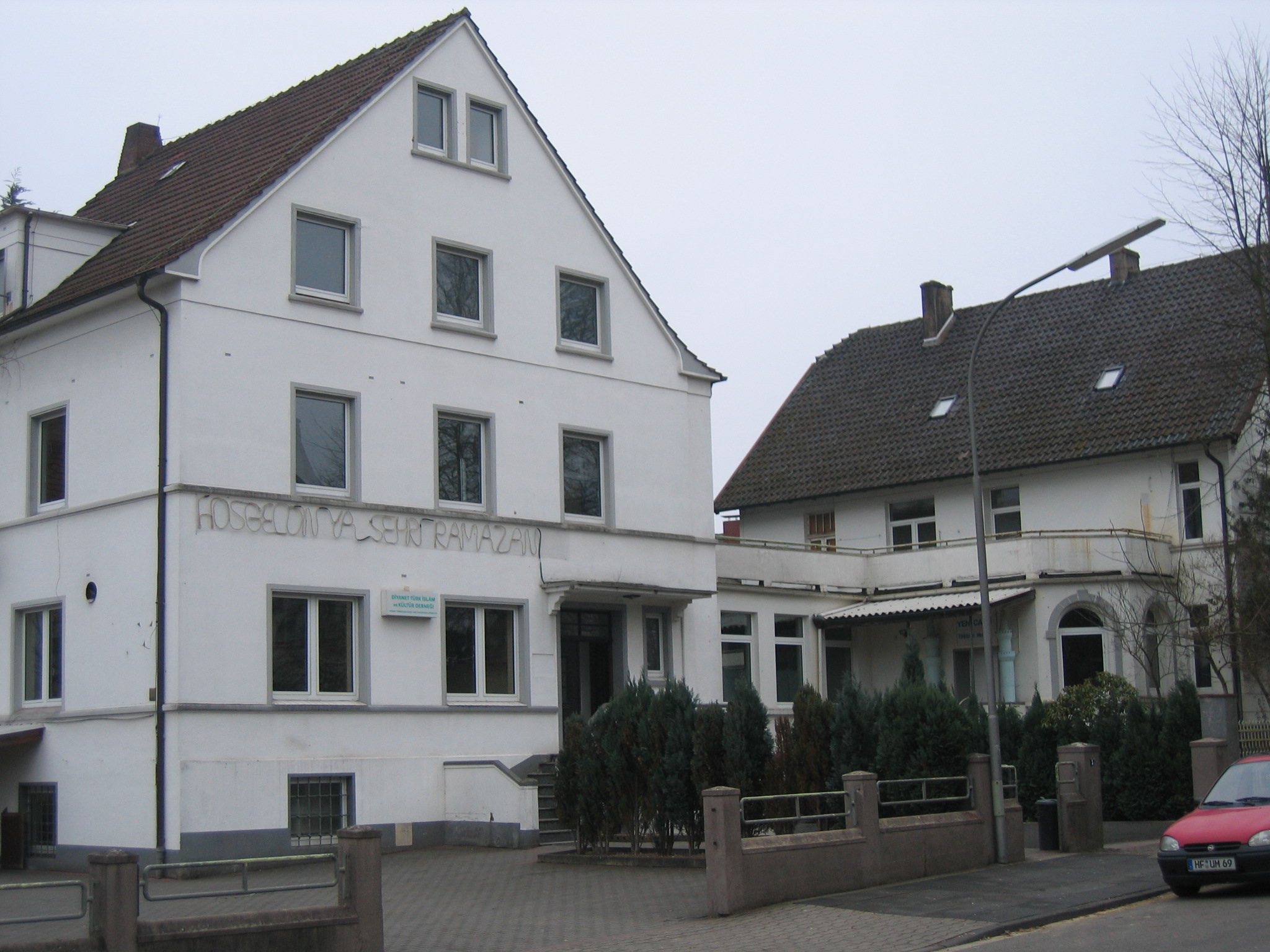 Mosque in Bünde-Ennigloh, District of Herford, North Rhine-Westphalia, Germany.